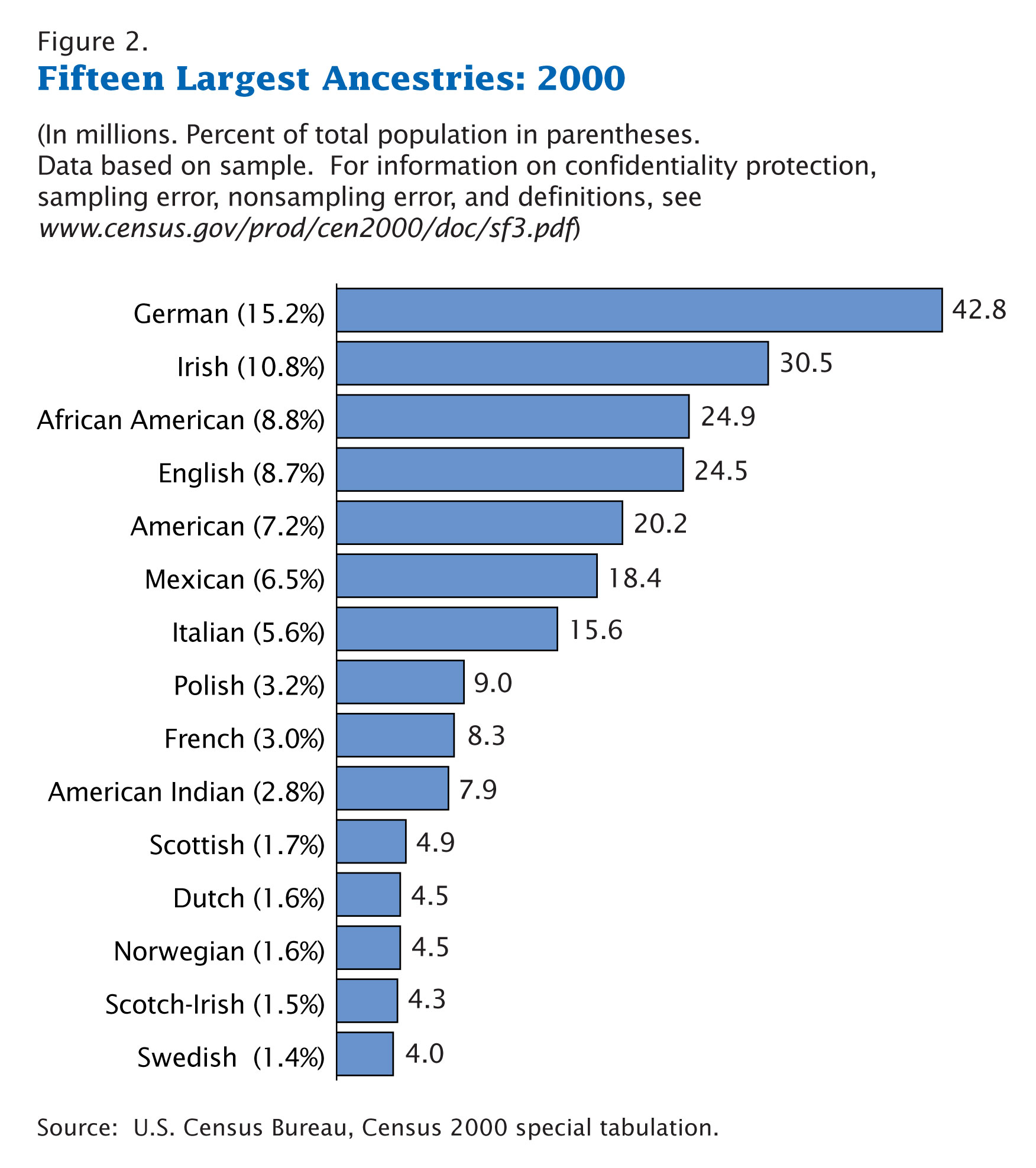 A chart of the top ancestries in the US, as provided by the 2000 census.